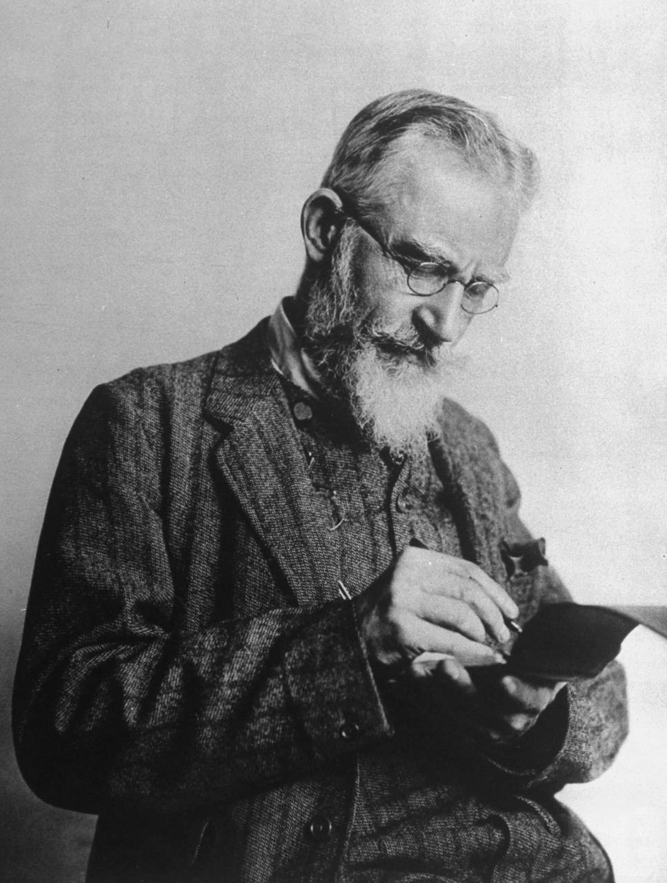 Anglo-Irish playwright George Bernard Shaw writing in notebook at time of first production of his play "Pygmalion."